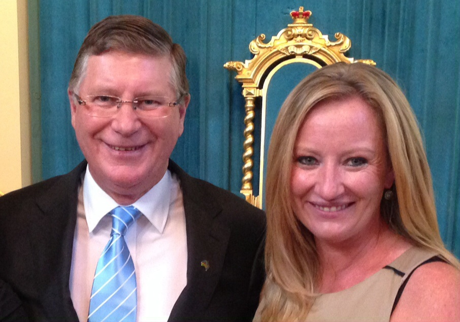 Donna Bauer MLA with Victorian Premier Denis Napthine. Taken at Government House in 2014 while attending an Australia Day event.